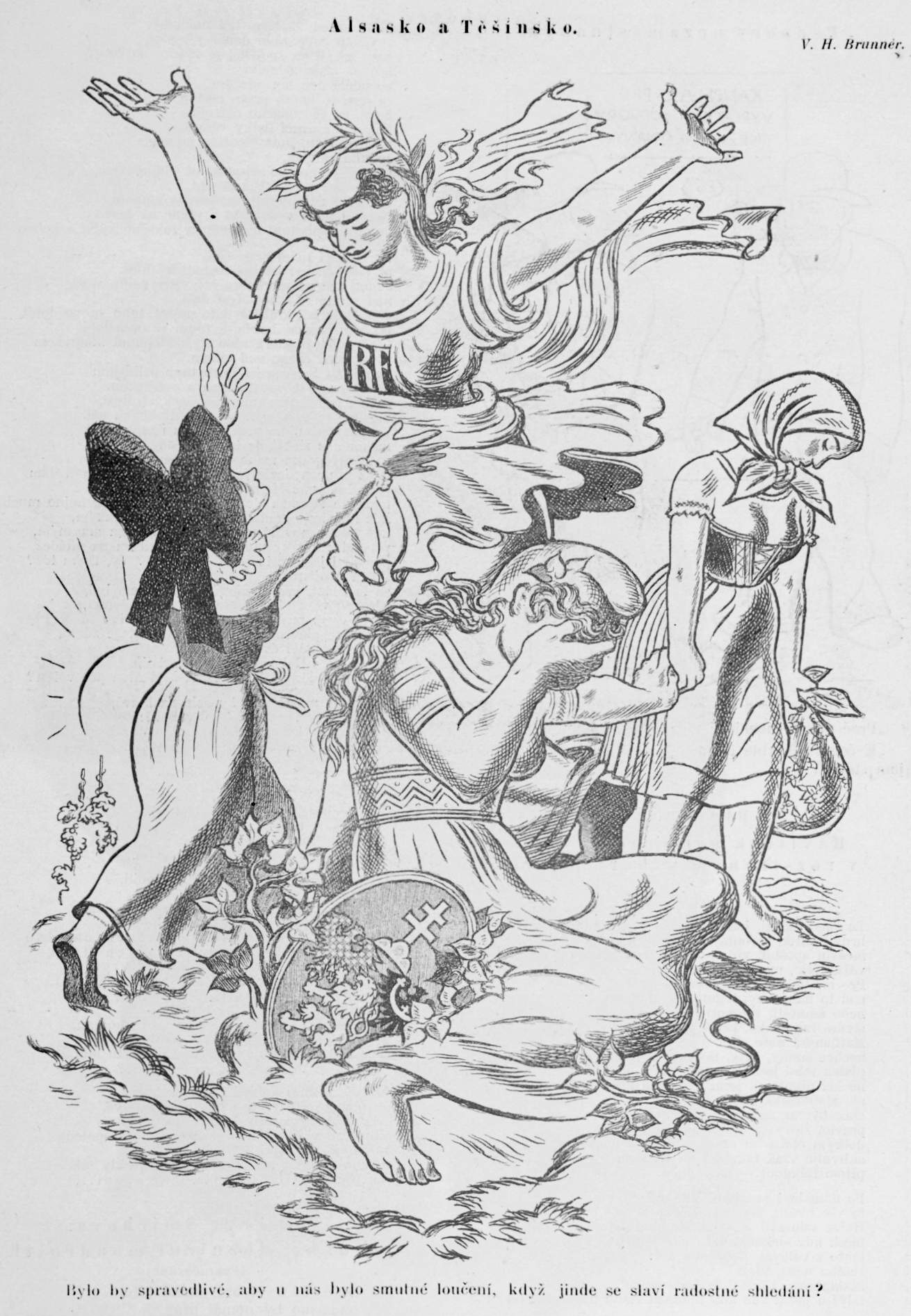 The picture compares the destiny of Alsace and Cieszyn/Těšín Silesia after the First World War. Alsace was returned from Germany to France and the Cieszyn/Těšín Silesia was to be divided between Czechoslovakia and Poland despite of the fact that it was since the year 1339 part of the Lands of the Bohemian Crown. The picture expresses the Czechoslovak point of view.